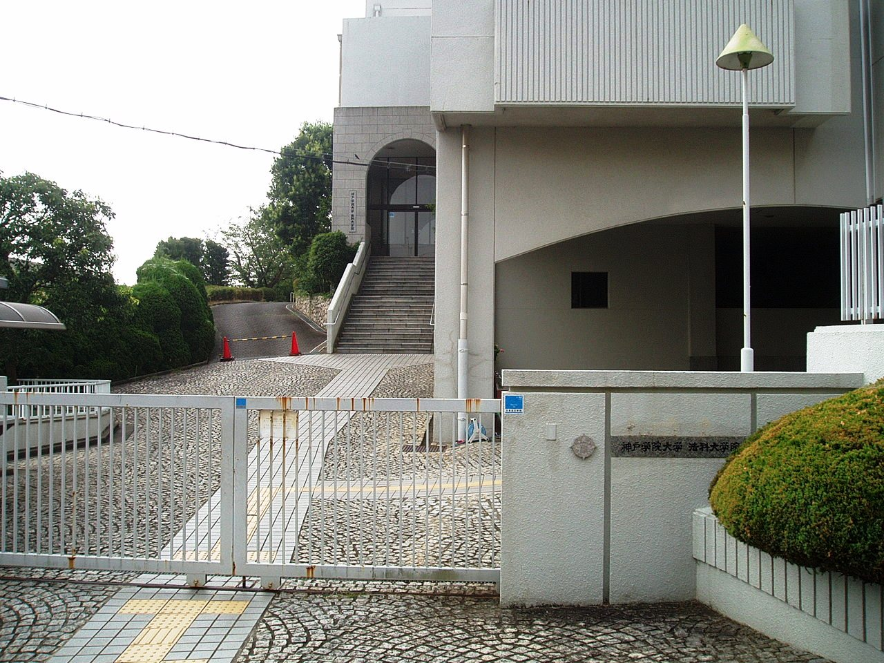 Nishiyama Campus of Kobe Gakuin Women's College (integrated into Kobe Gakuin University in 2005), located in Nishiyama-cho, Nagata-ku, Kobe, Hyogo, Japan.